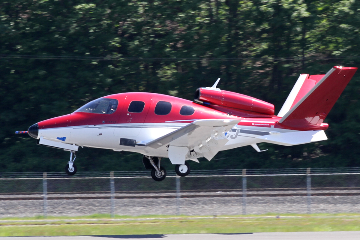 Boeing Field/King County